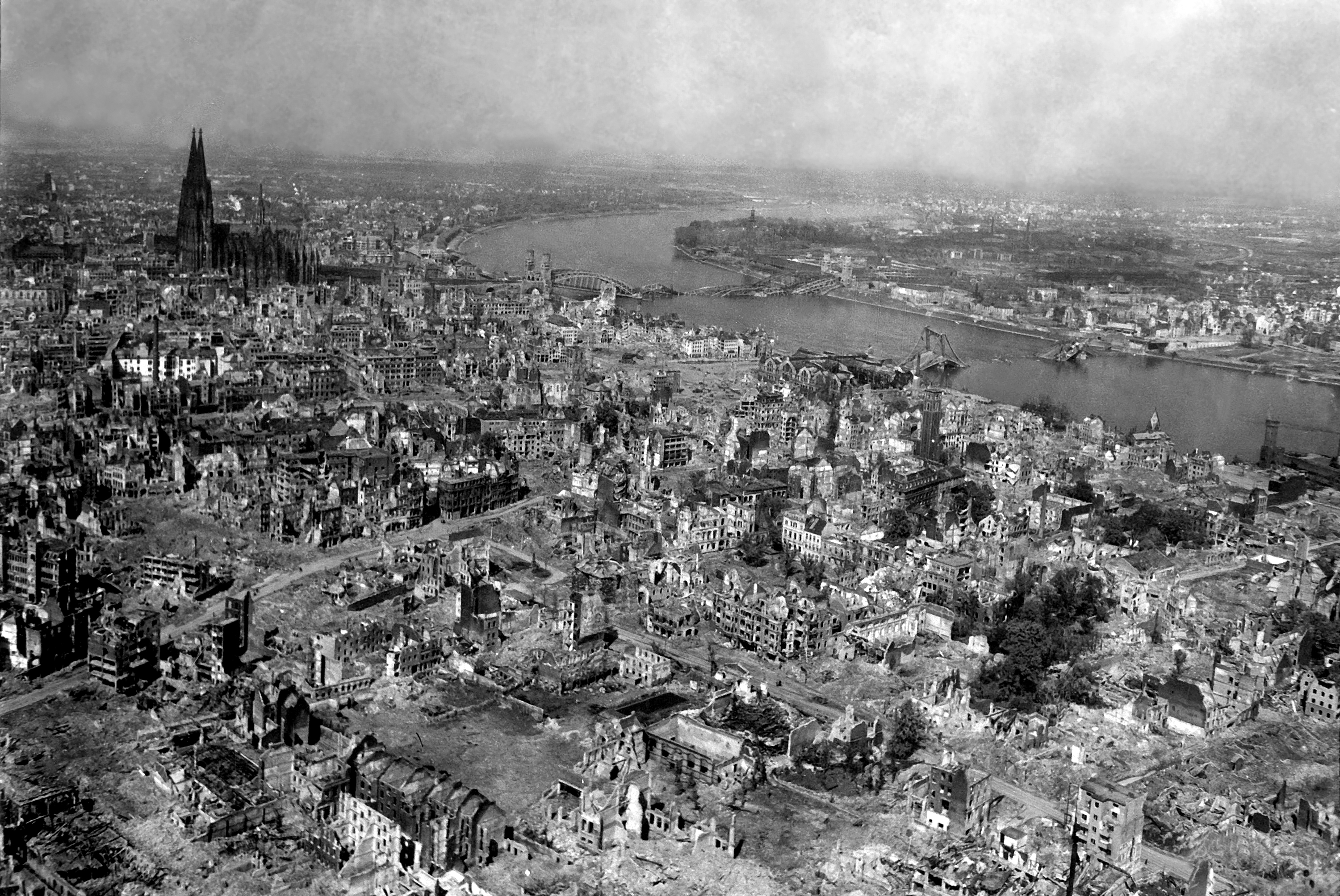 The Kölner Dom (Cologne Cathedral) stands seemingly undamaged (although having been directly hit several times and damaged severely) while entire area surrounding it is completely devastated. The Hauptbahnhof (Köln Central Station) and Hohenzollern Bridge lie damaged to the north and east of the cathedral. Germany, 24 April 1945.